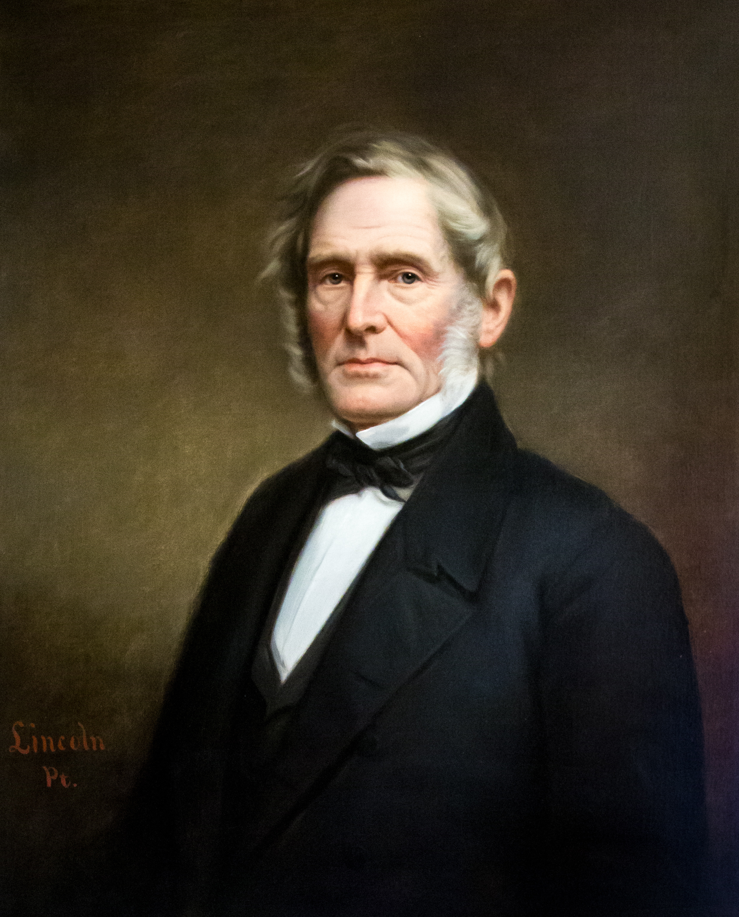 RI Governor Elisha Harris. Painting by James Sullivan Lincoln. Rhode Island State House portrait collection.